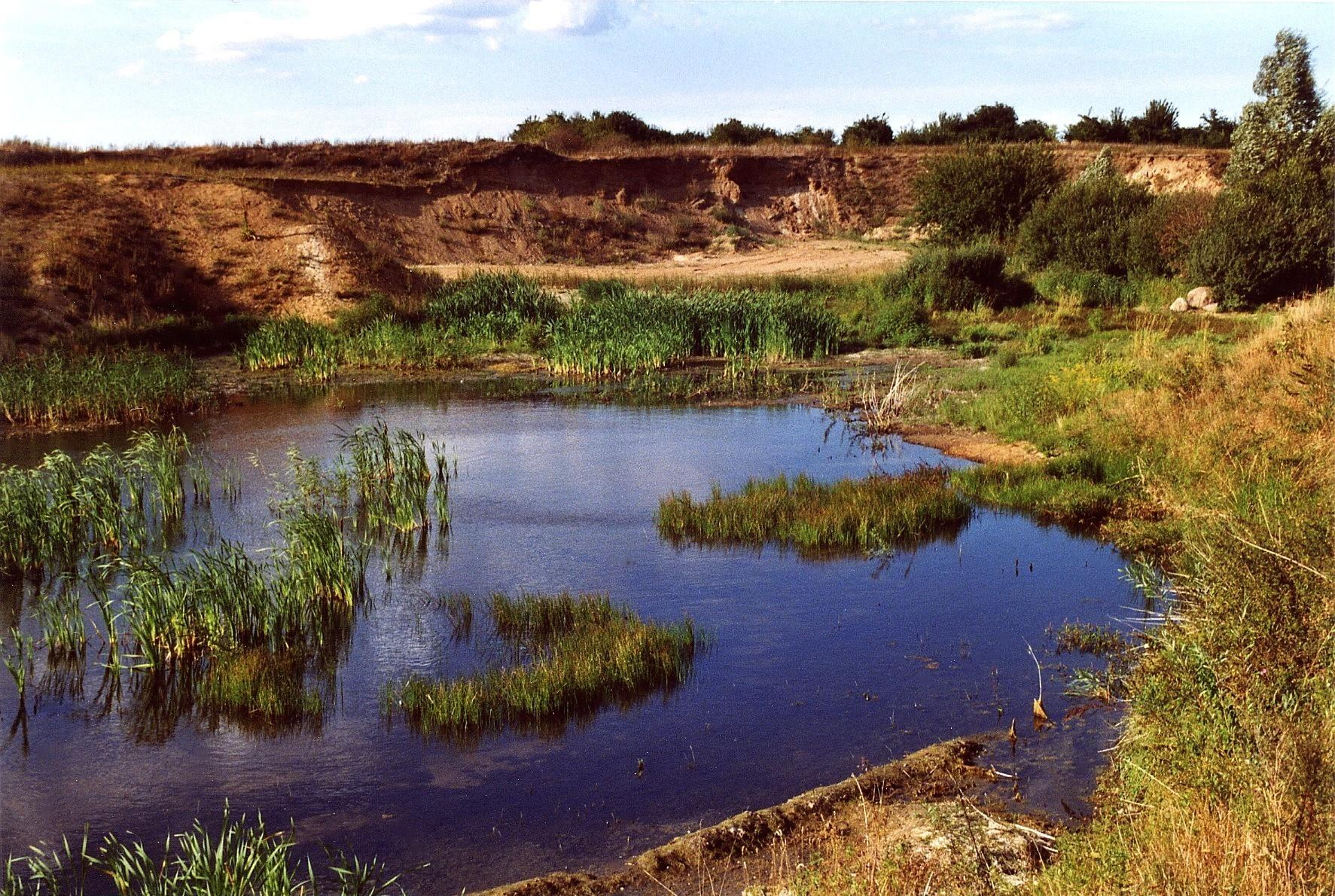 Disused gravel pit in Lower Saxony, Germany